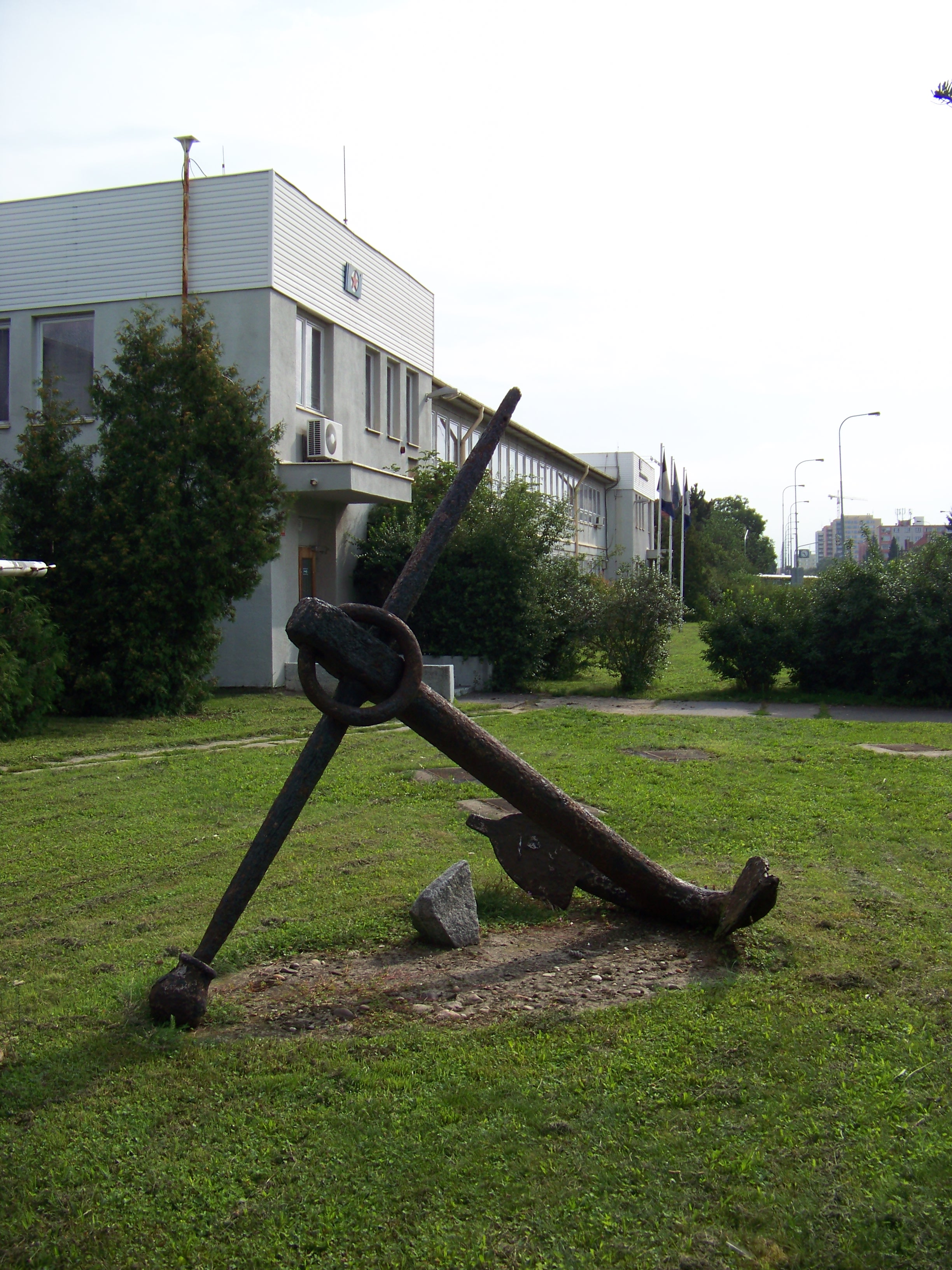 Prague-Strašnice, the Czech Republic. Počernická street, Česká námořní plavba.